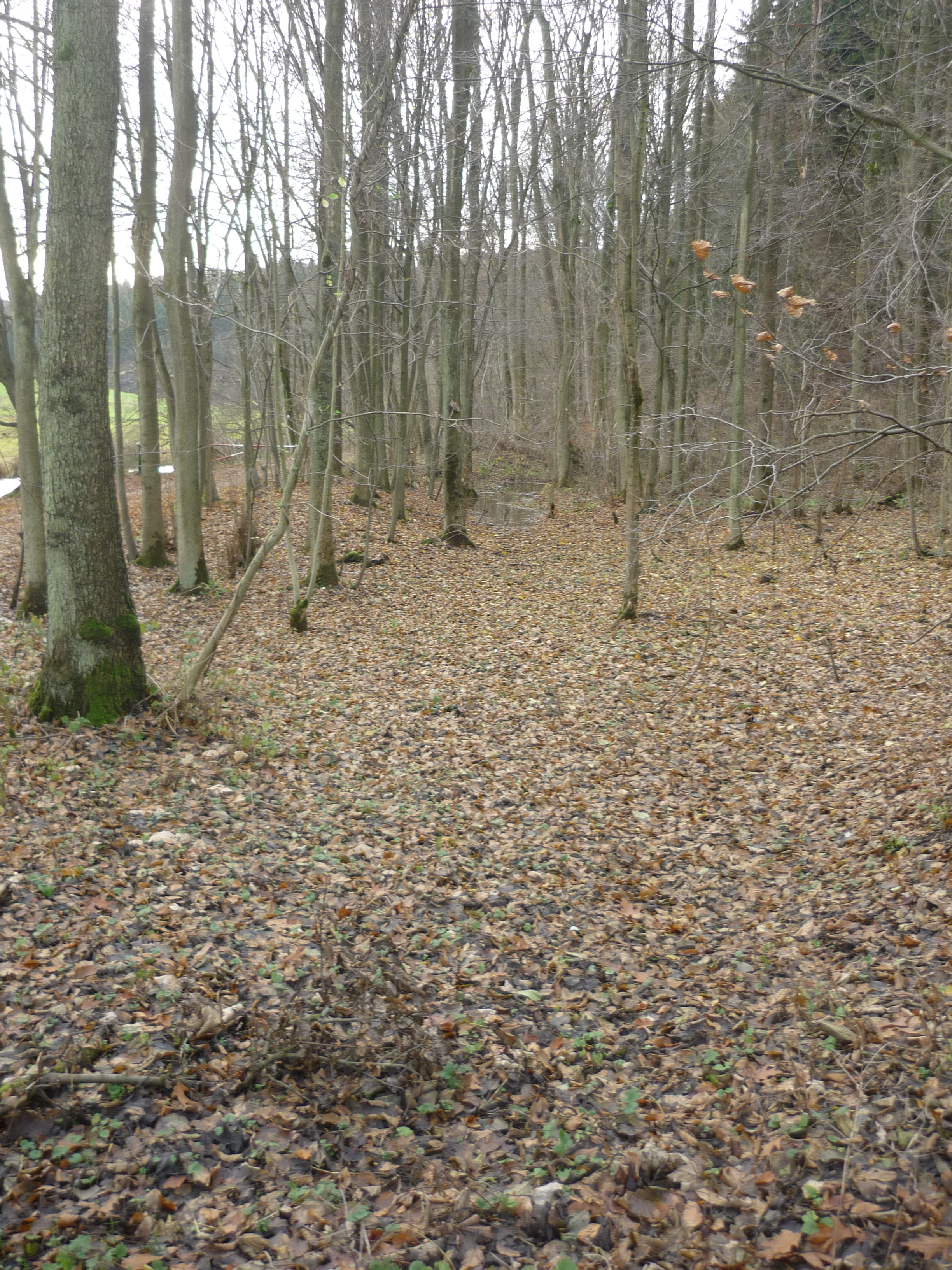 Foreign place of historic mill nister westerwald